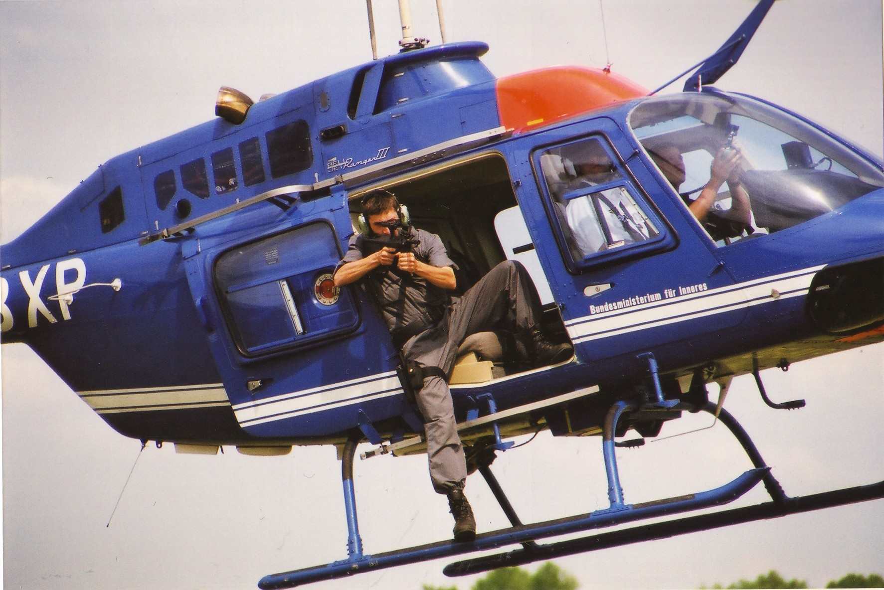 An officer of the austrian Counter-Terrorism unit Einsatzkommando Cobra handling a Steyr AUG rifle during an operation with a helicopter (type Bell 206B Jet Ranger).